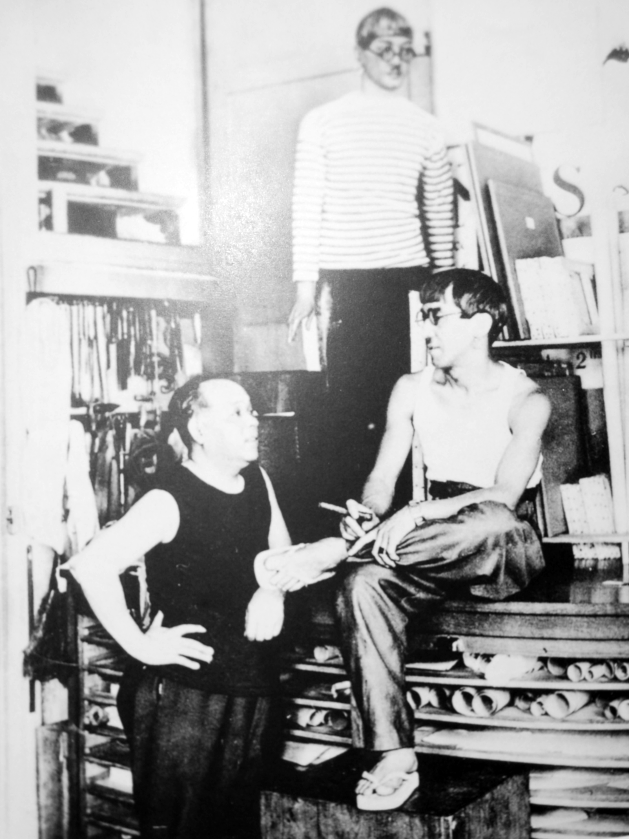 Tsuguharou Foujita in his atelier in 1918